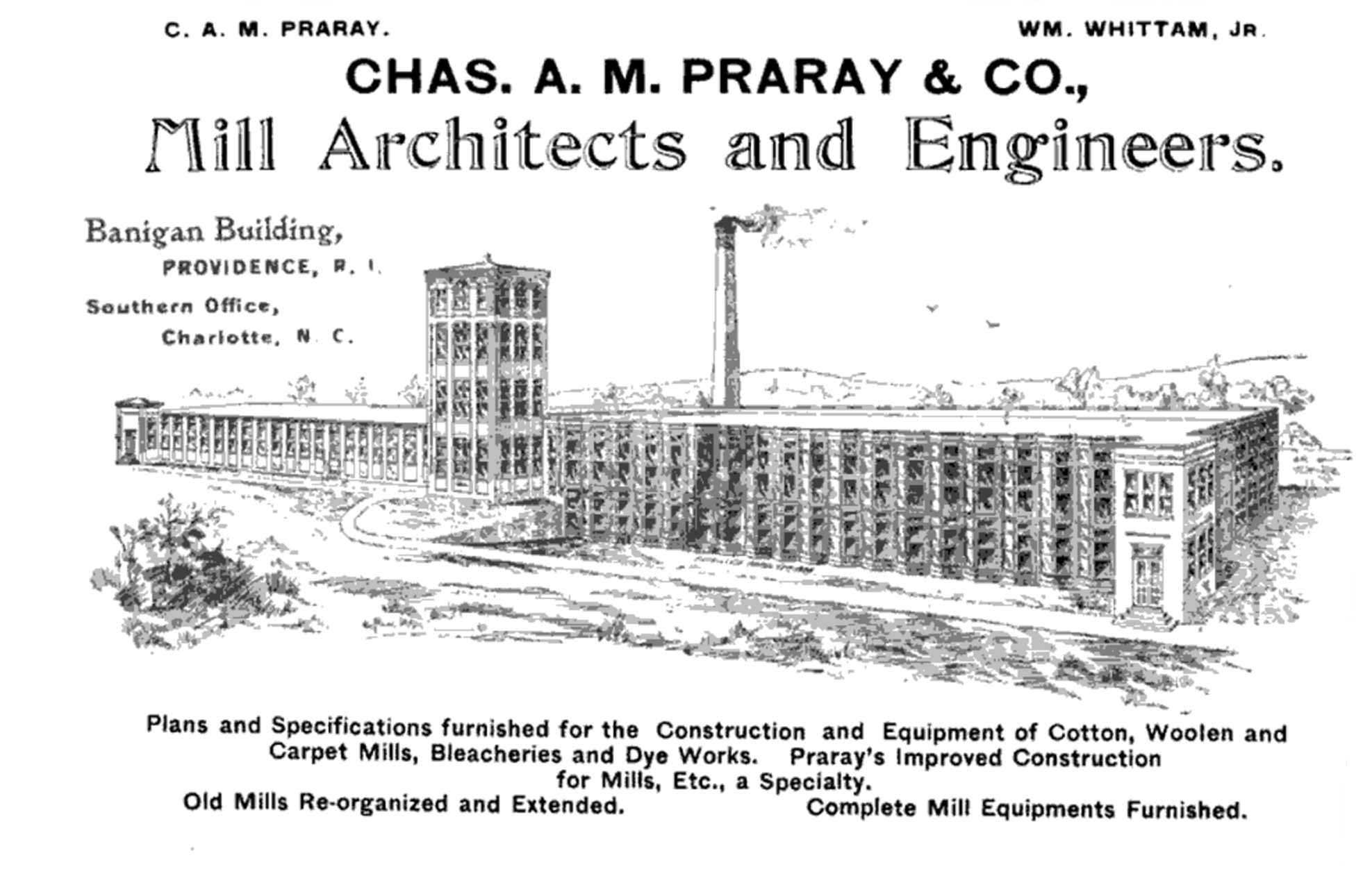 An advertisement for Chas. A. M. Praray & Company, an architectural firm from Providence, Rhode Island which specialized in the design of mills. Praray was noted as the inventor of "Praray's Improved Construction", developed while he was a partner in the better-known firm of C. R. Makepeace & Company. The advertisement illustrates Praray's design for the mill of the T. M. Holt Manufacturing Company in Haw River, North Carolina.